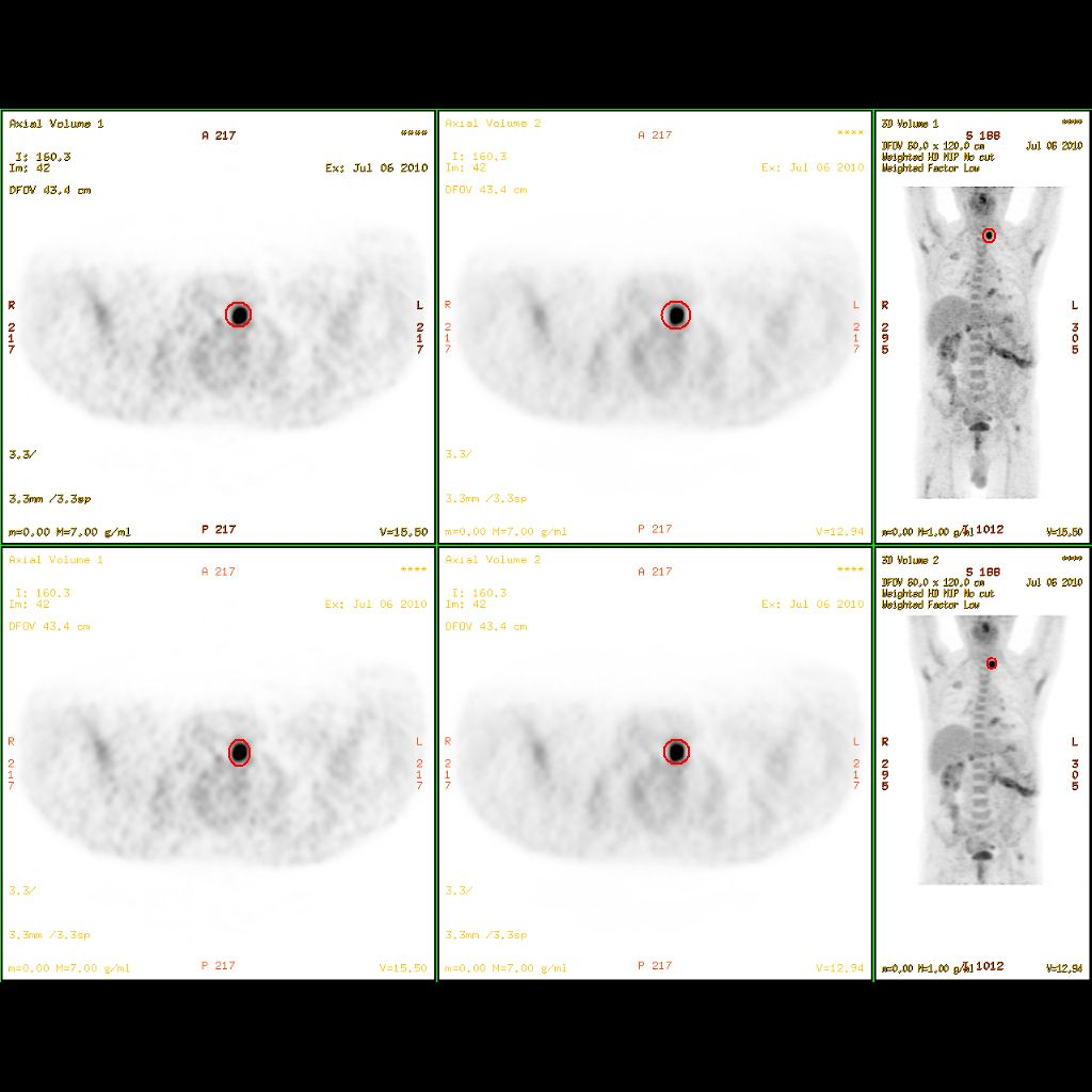 PET Reconstruction with iterative 3D algorithm Vuepoint HD. Comparison of image resolution using 32 or 16 subsets. lesion marked in red.